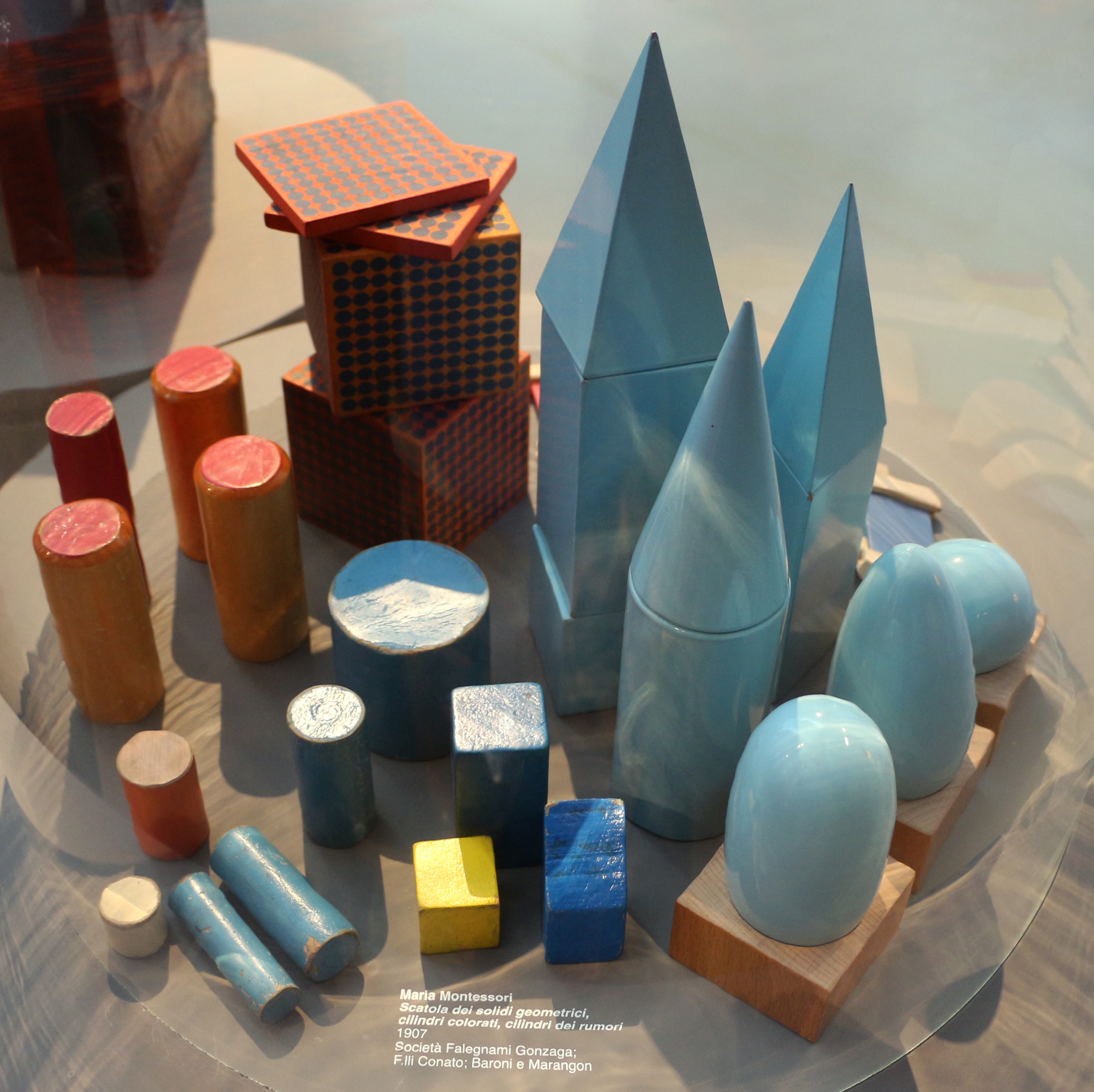 W. Women in Italian Design (Milan 2016)